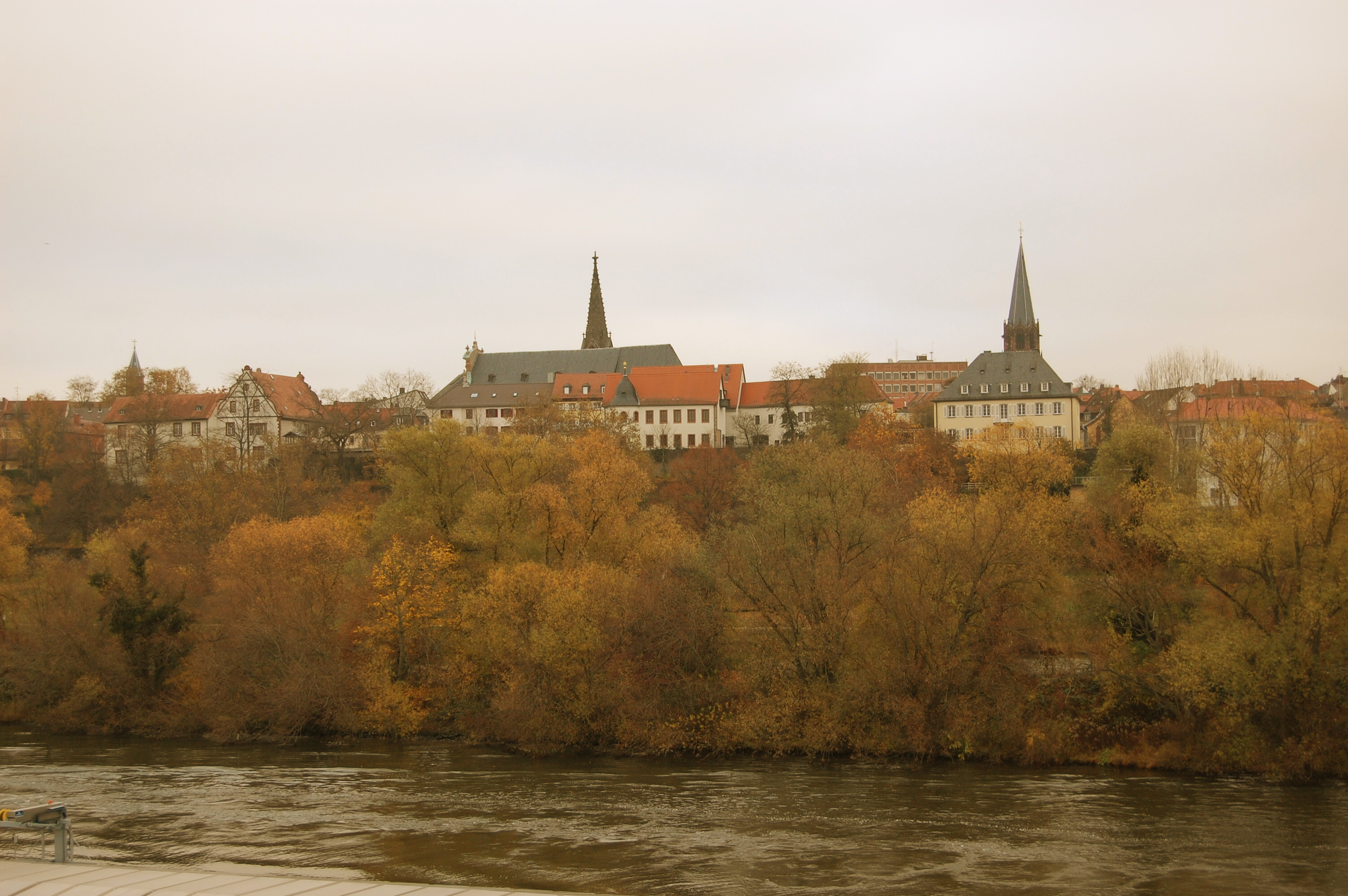 Aschaffenburg